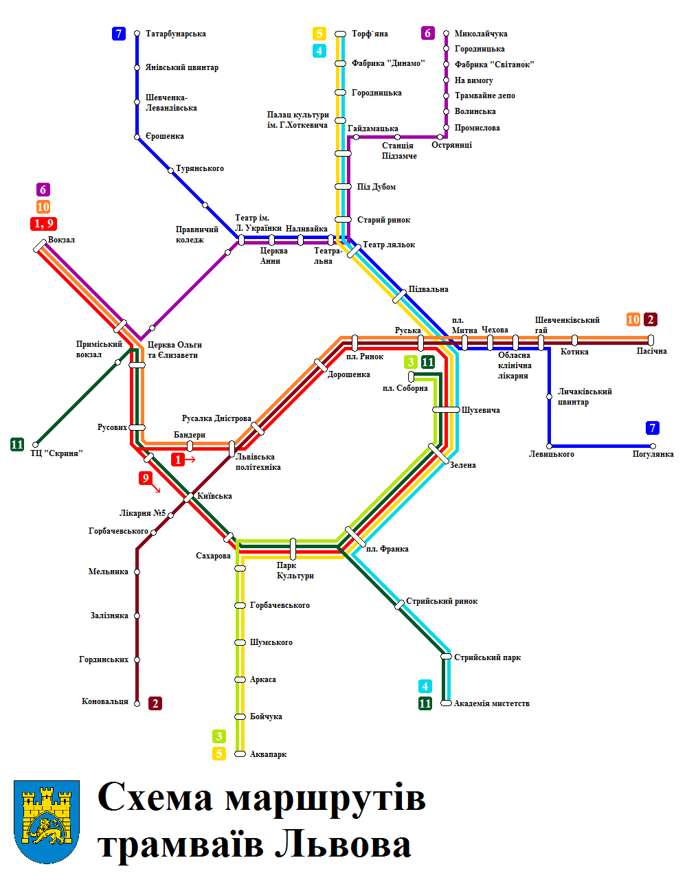 Lviv tram routes map